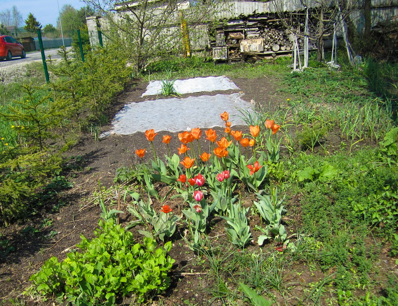 A corner of Estonian home garden in spring. Young spruce hedge is on the left, and in the middle of the picture are (from the front): young shoots of Hydrangea arborescens, tulips Tulipa kaufmanniana (red) and Tulipa fosteriana ’Orange Emperor’, and recently sown peas under the veil. As the peas had been pre-germinated at room temperature, it was needed to cover the bed with the veil to protect the plants from low temperatures and possible night frosts. (Viimsi Parish, Harju County)